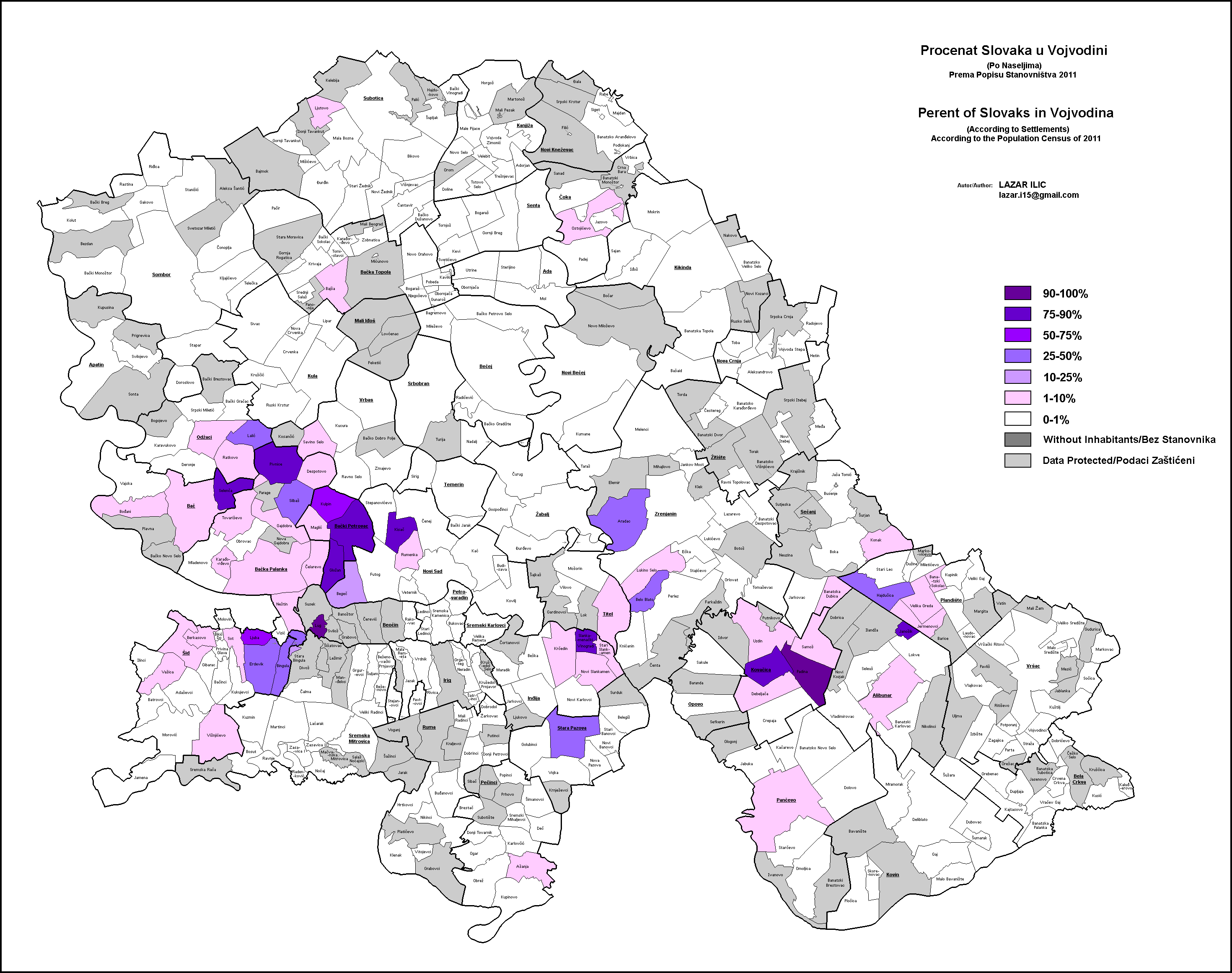 This is an ethnic map of Vojvodina (Northern Serbia) which shows the percent of Slovaks according to each settlement, according to the 2011 population census.